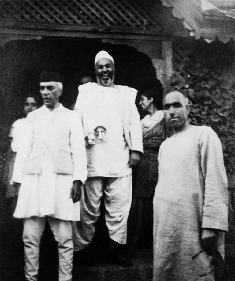 Jawaharlal Nehru with Abdul Samad Khan and Sheikh Abdullah in 1946, Sheikh Abdullah is standing in the left.""